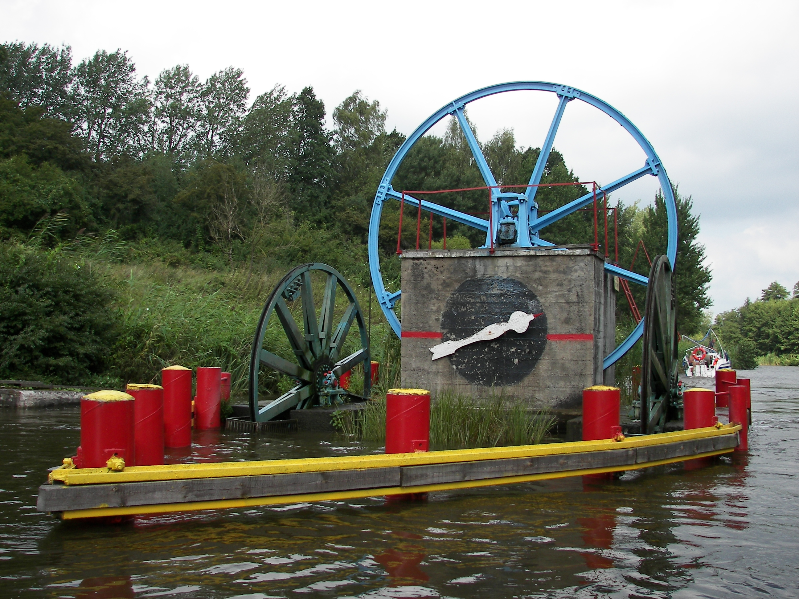 Elbląg Canal, Poland